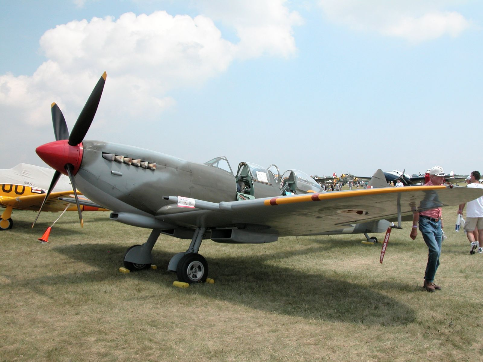 Supermarine Spitfire Mk IX 2-cockpit trainer, at the Oshkosh Air Show.